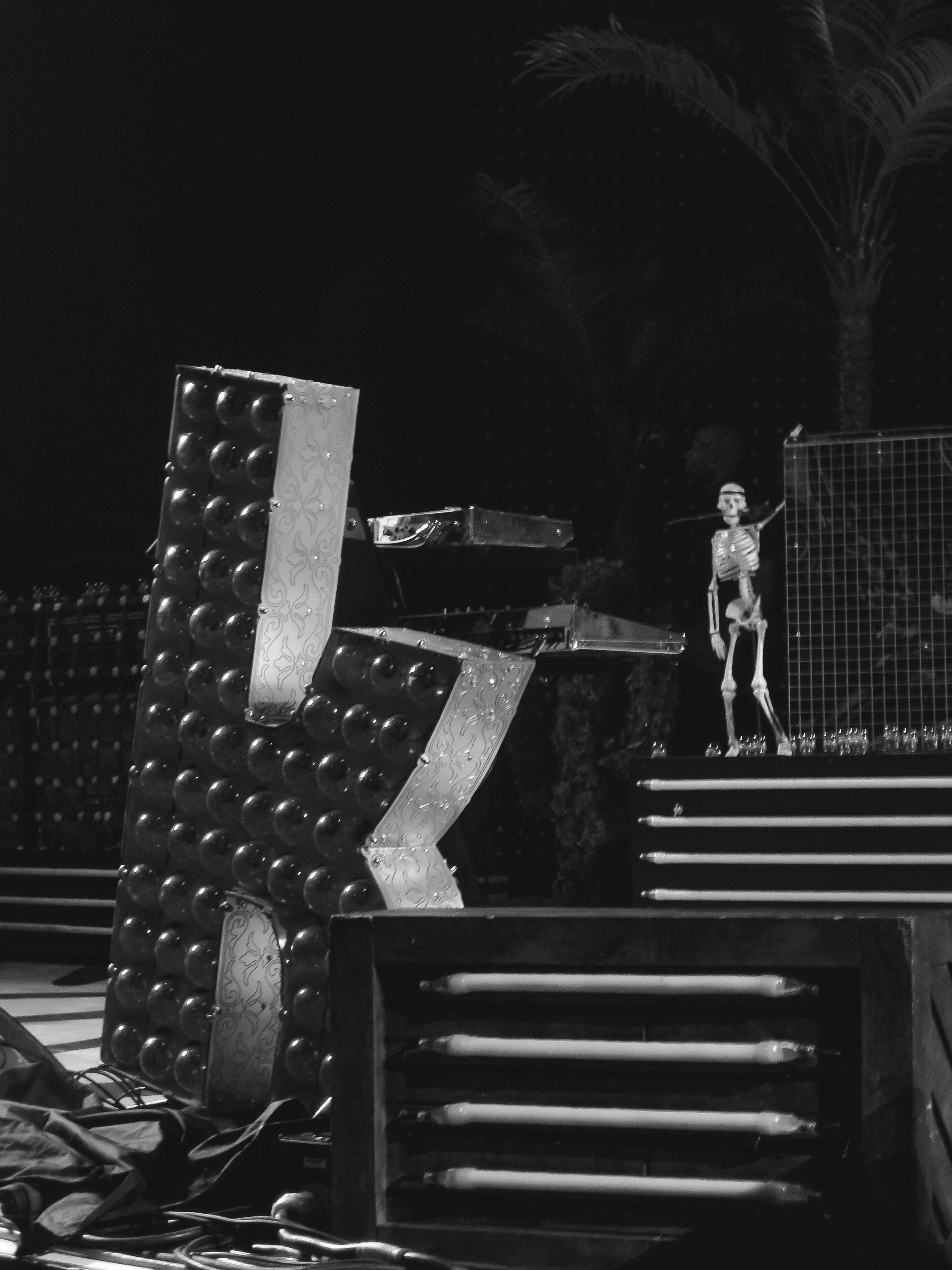 Stage design for The Killers Day & Age World Tour